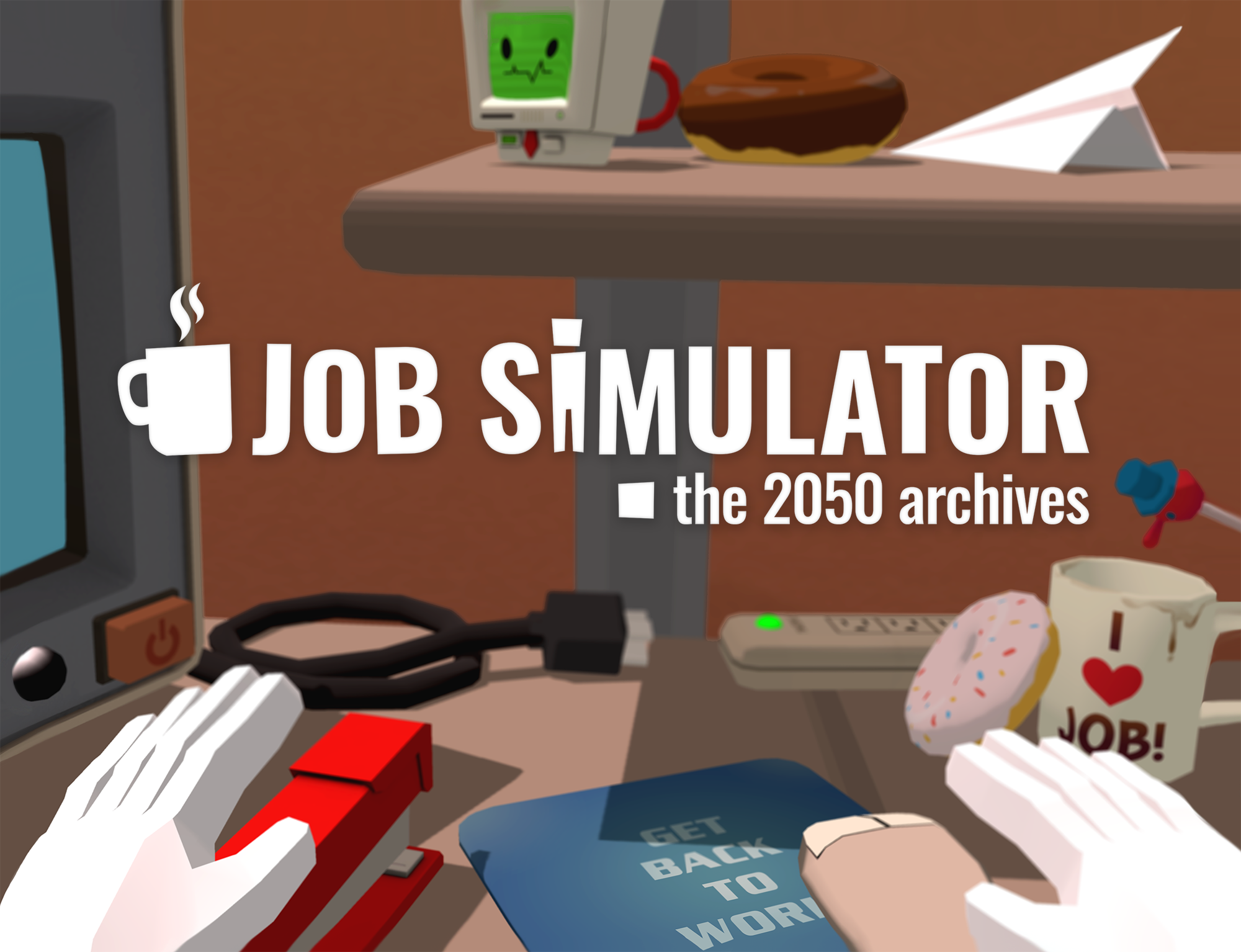 Asset from Job Simulator